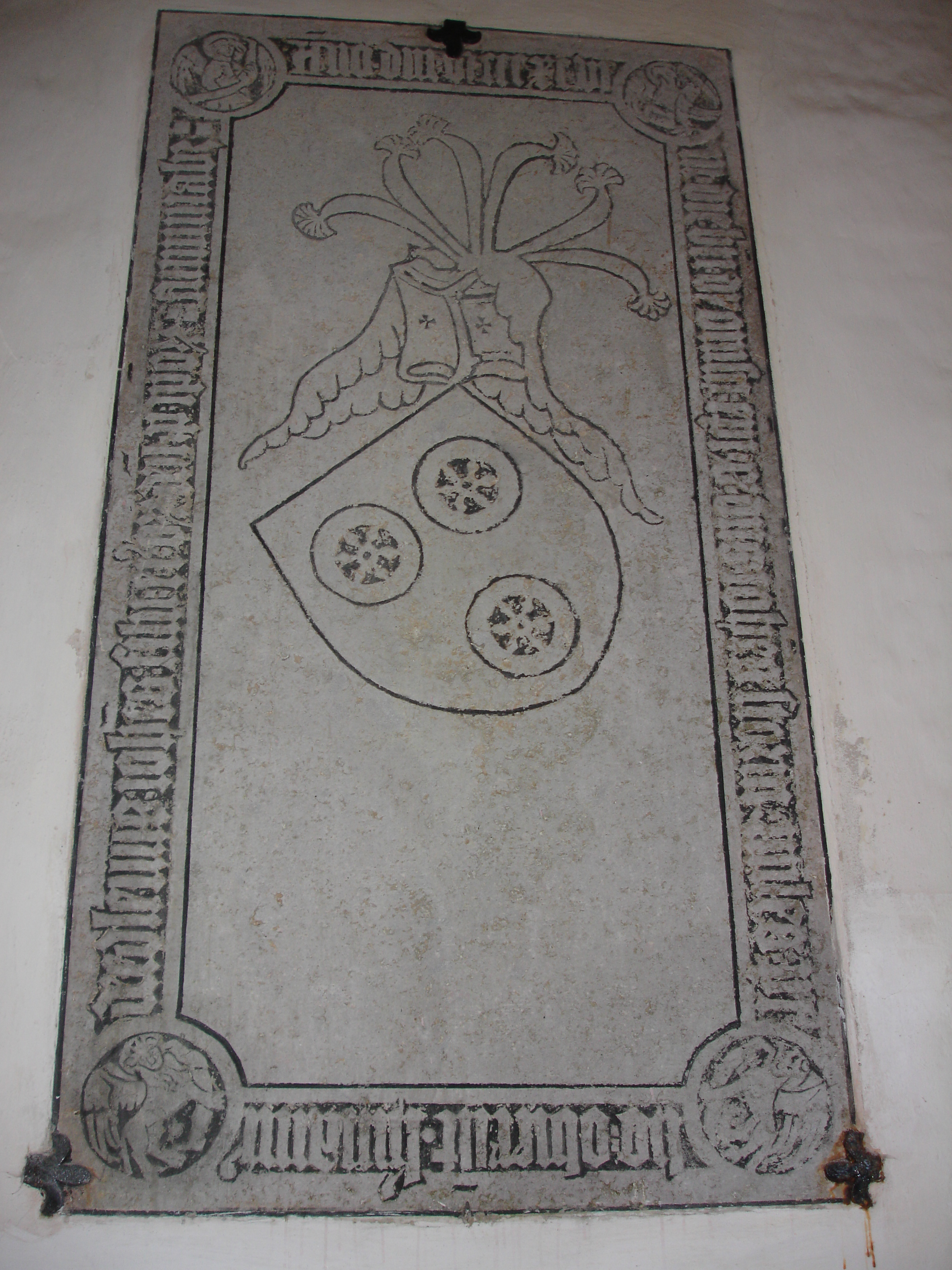 Church in Bössow, district Nordwestmecklenburg, Mecklenburg-Vorpommern, Germany